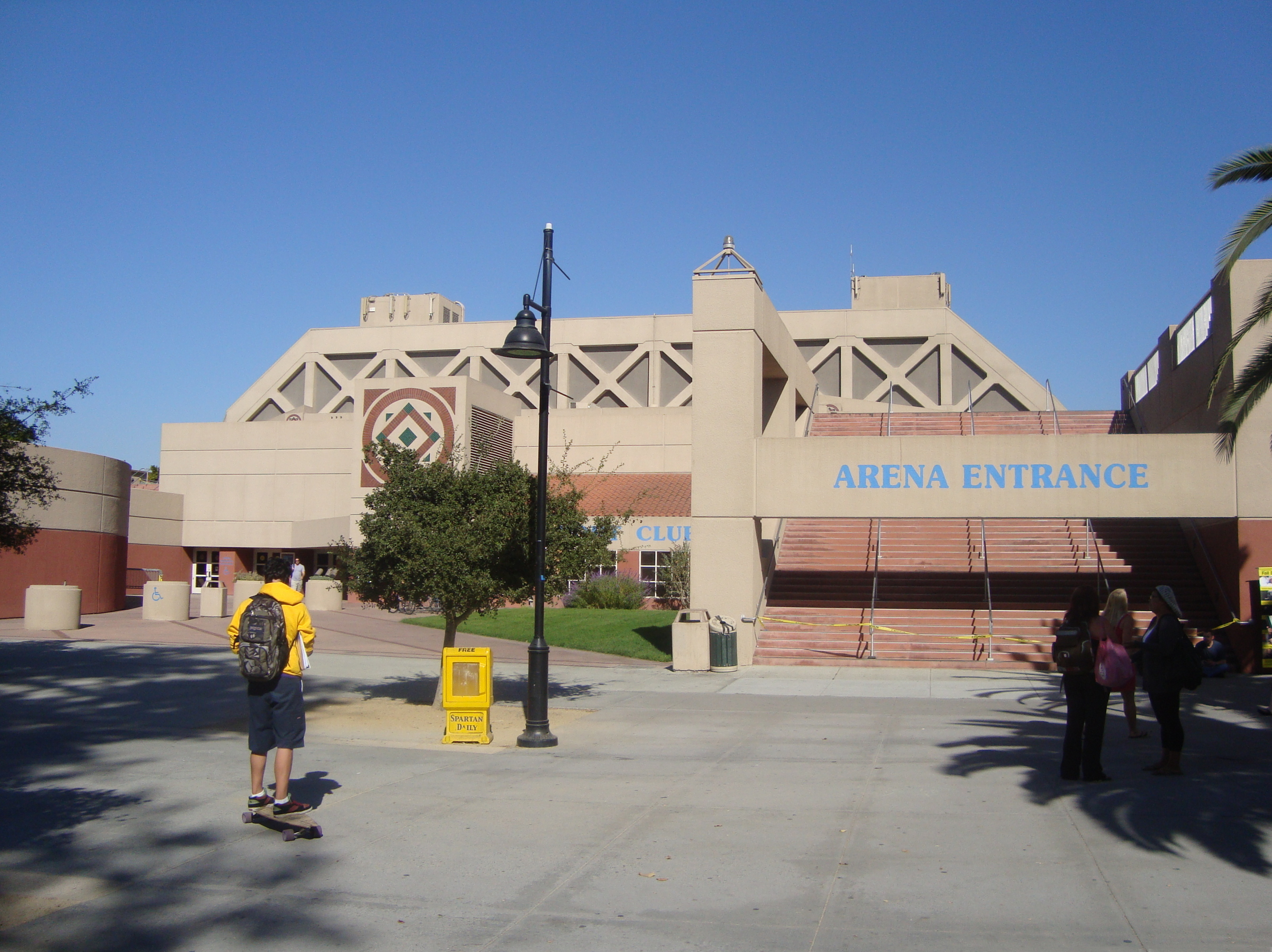 The Event Center at San José State University